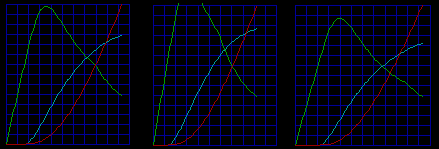 Internal ballistics plot showing effects of medium, faster, and slower burning powders